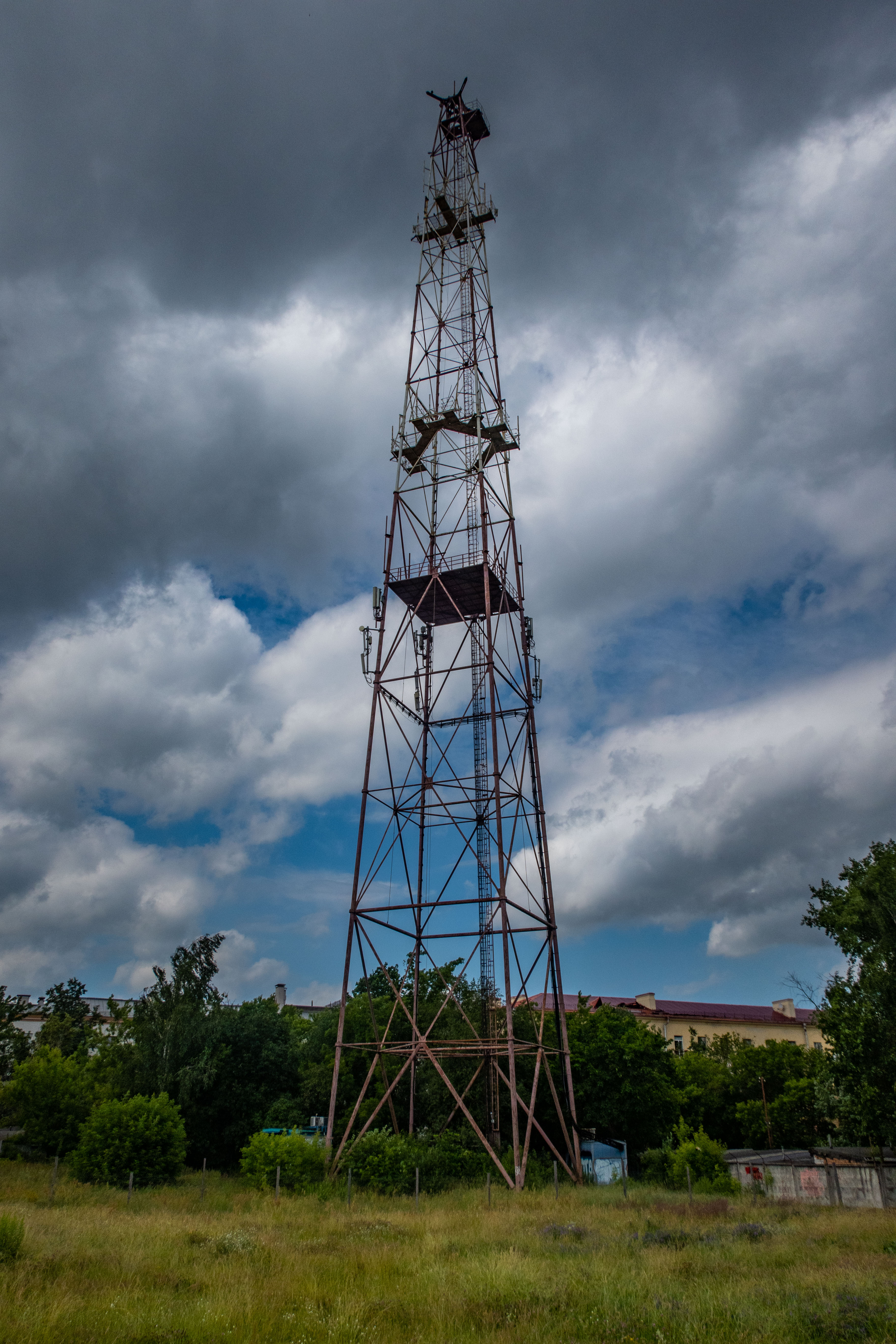 Former jammer tower, used in the Soviet Union to jam western radio stations. Now used to carry cell antennas. Minsk, Belarus